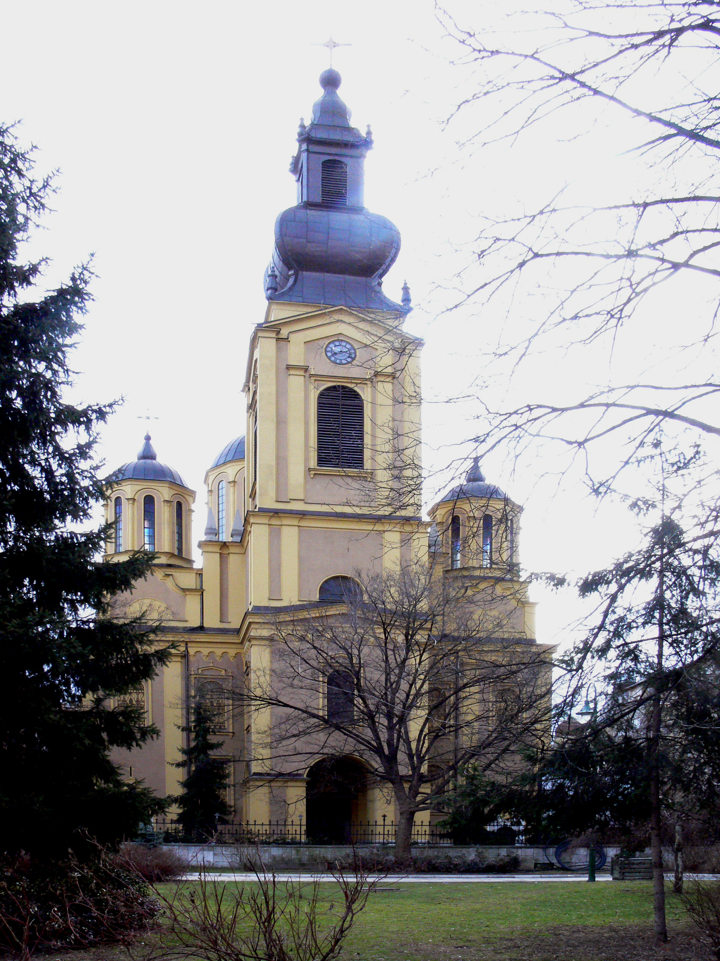 The serbian orthodox church in Sarajevo.